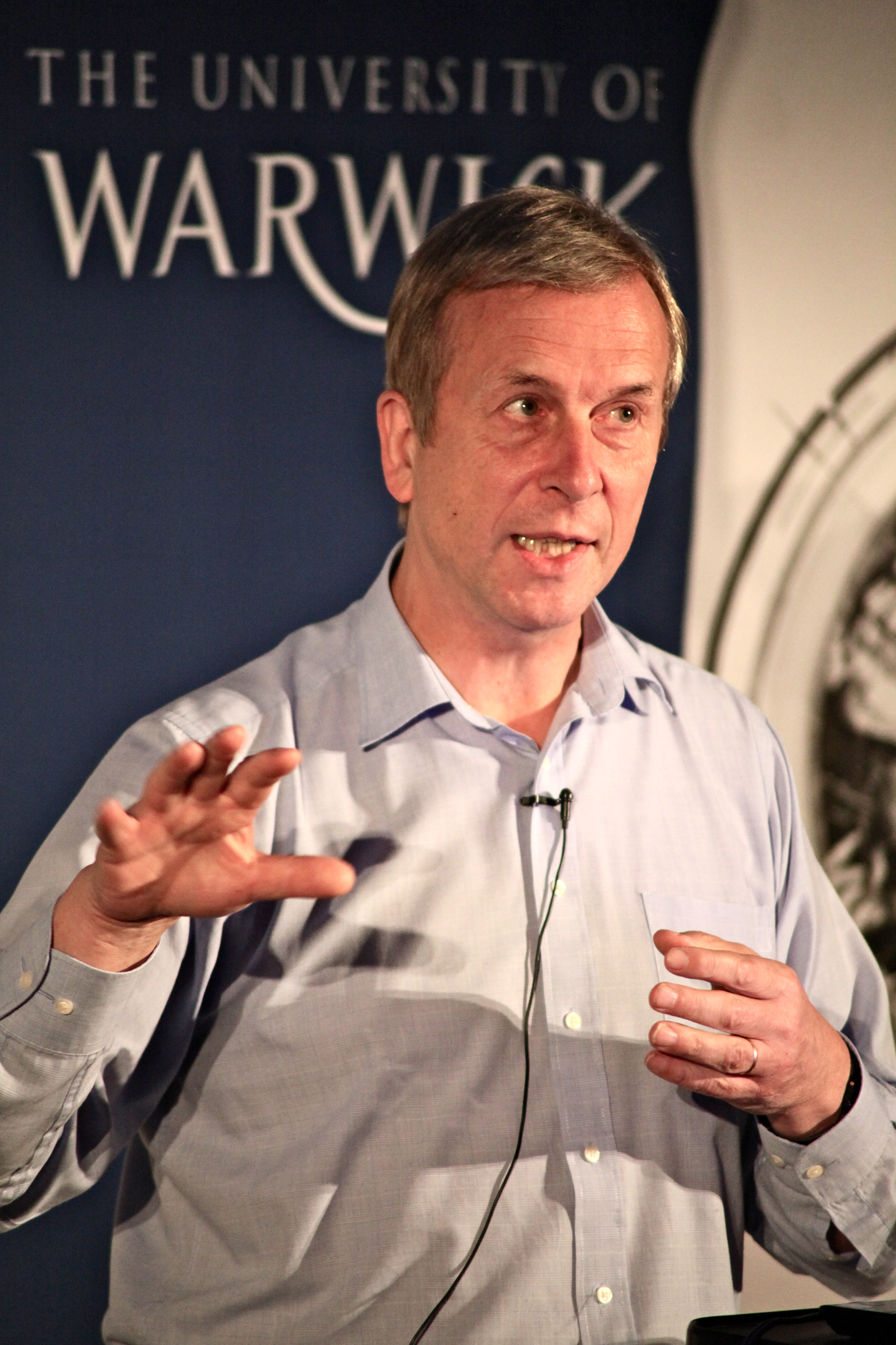 Kevin Warwick at VirtualFutures